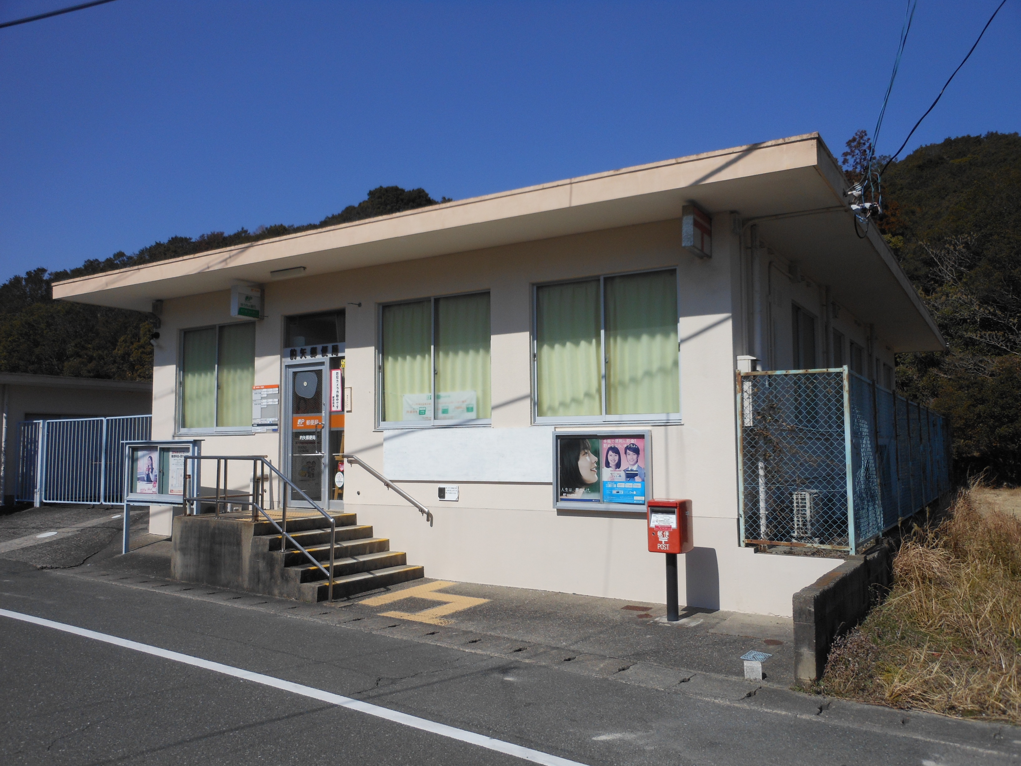 This is the Matoya post office, which is in Isobecho-Matoya, Shima, Mie, Japan.